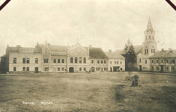 market Sanok